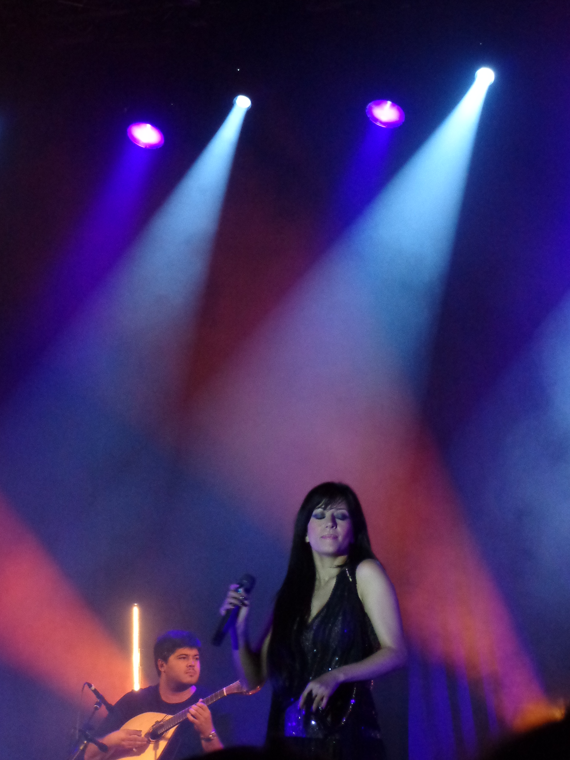 Ana Moura in 2013